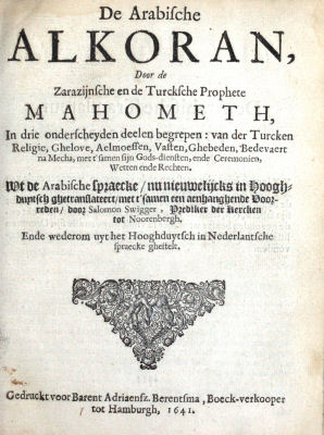 First Dutch translation of Koran 1641